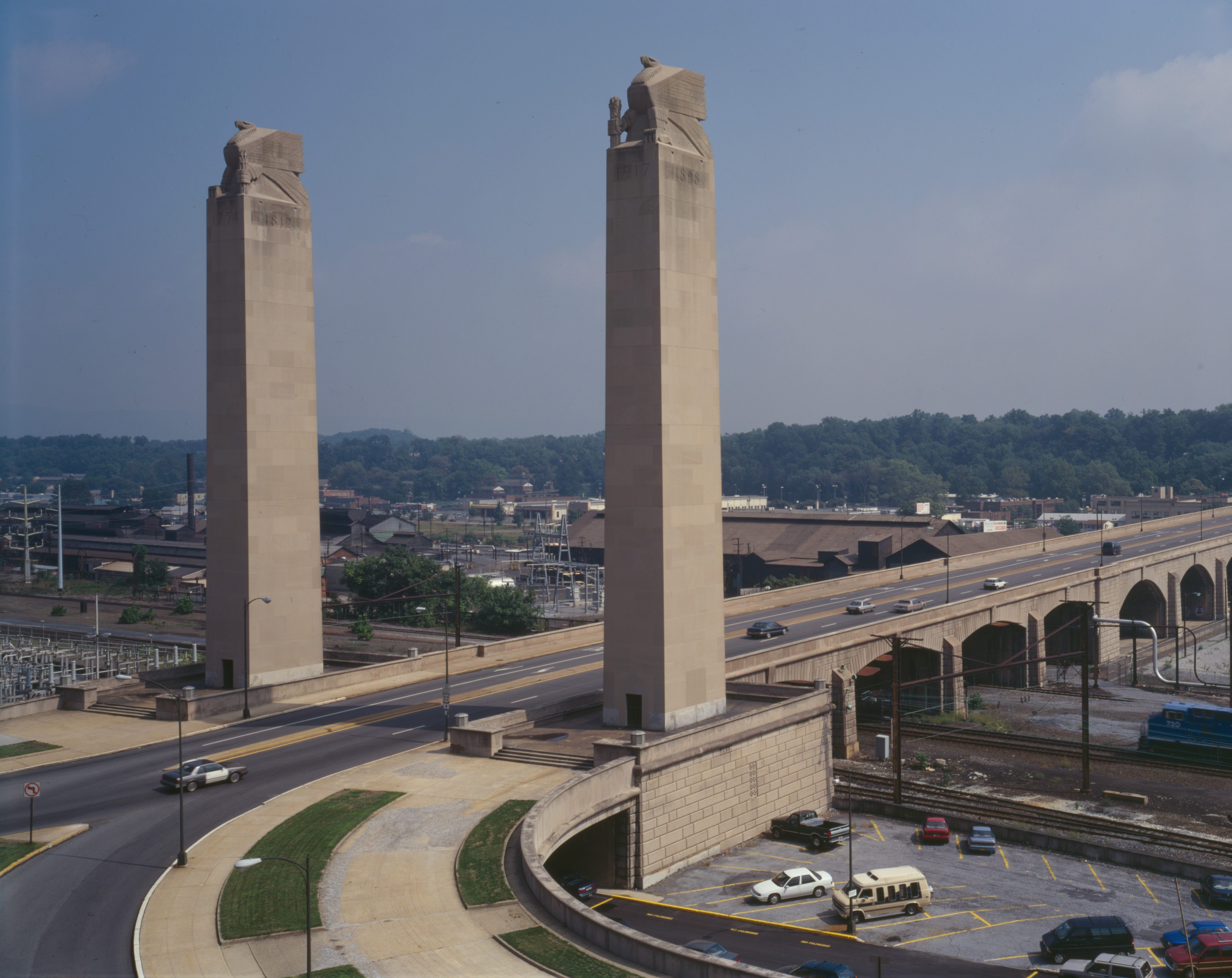 The State Street Bridge in Harrisburg, Pennsylvania Original number was "HAER PA,22-HARBU,28-13", original caption was "3/4 view from southwest."